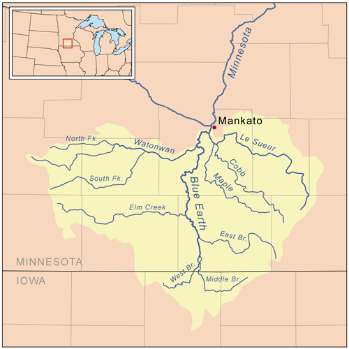 Map of the Blue Earth River watershed — in Iowa and Minnesota.